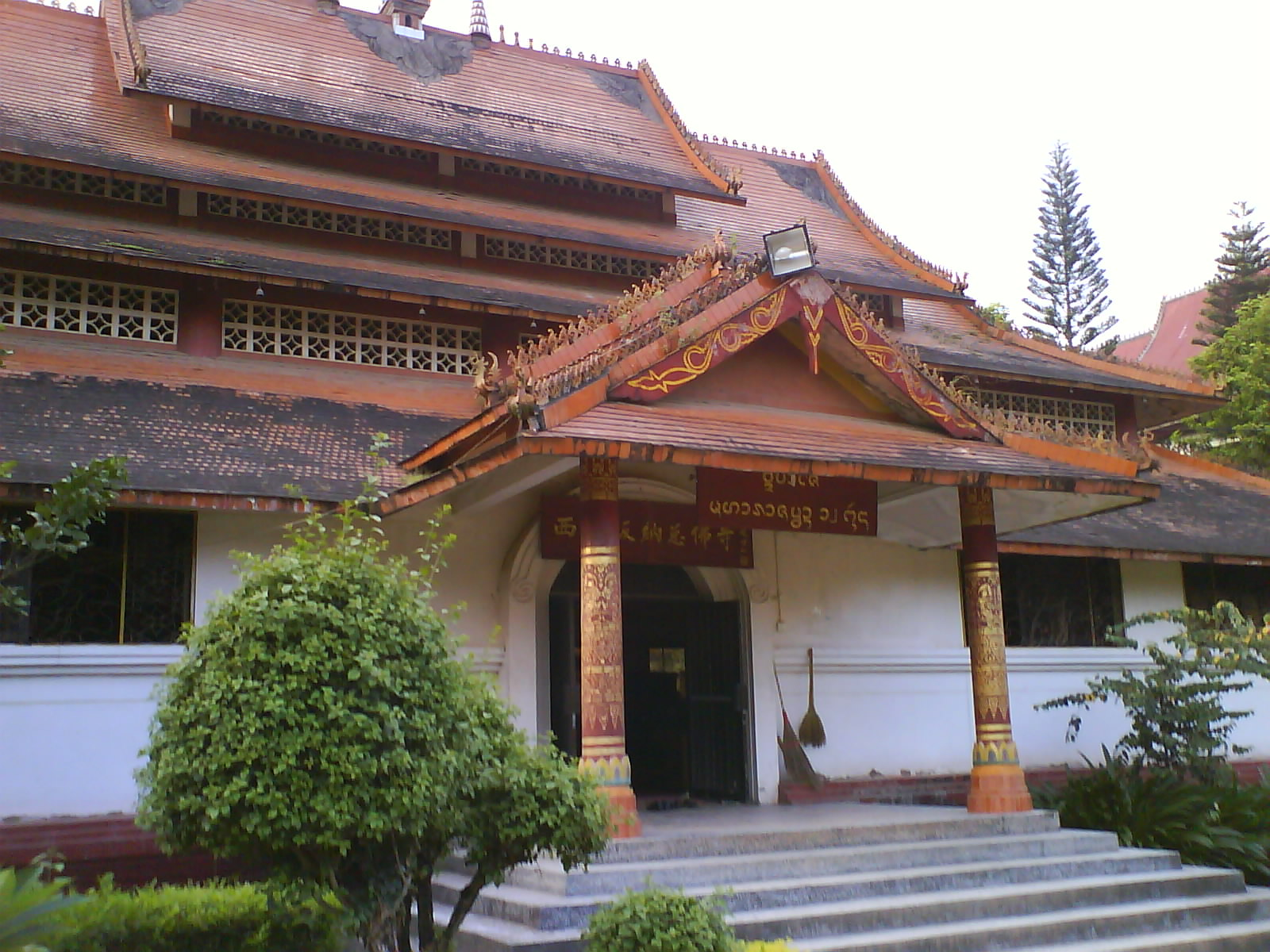 Buddhist temple of Dai minority (near thai culture), in Xishuangbanna, south of Yunnan province, People Republic of China, near Laos. The first pannel is wrote in Xishuangbanna dai writting, the secondary in han chinese.